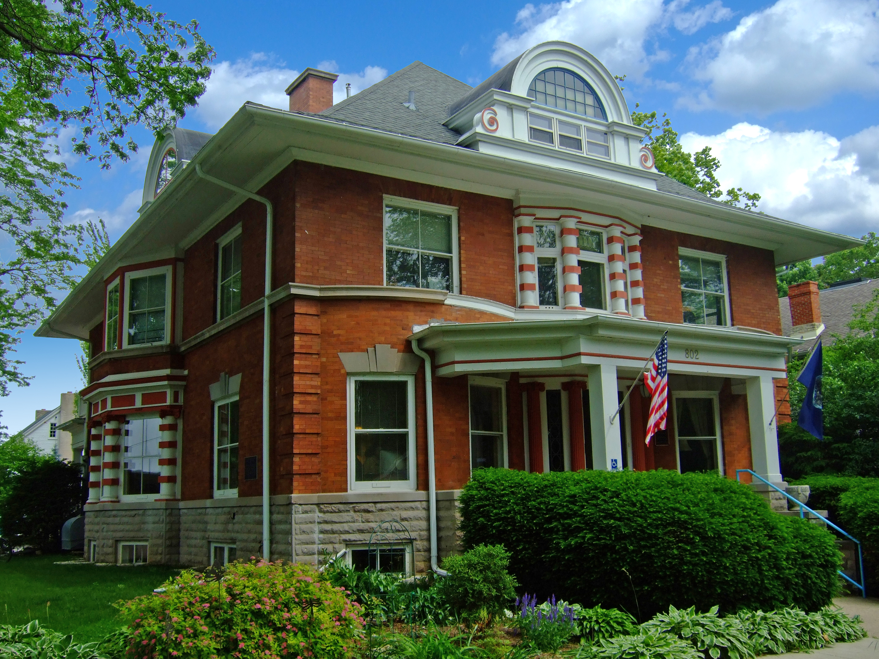 The Adolph H. Kayser House (1902) at 802 E. Gorham Street in Madison, Wisconsin, was added to the National Register of Historic Places in 1980. The Kayser House was designed by Claude and Starck, a local architectural firm that would later become the foremost practitioner of the Prairie School style in Madison. The design of the Kayser House is a distinctive blend of classical details, then very popular, and the broad horizontal lines and simple massing of the Prairie School, which was just coming into vogue. Kayser was a prominent Madison lumber dealer who also served as mayor of Madison from 1914 to 1916.